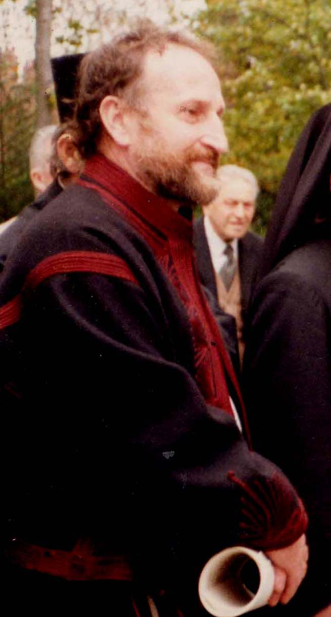 Profil